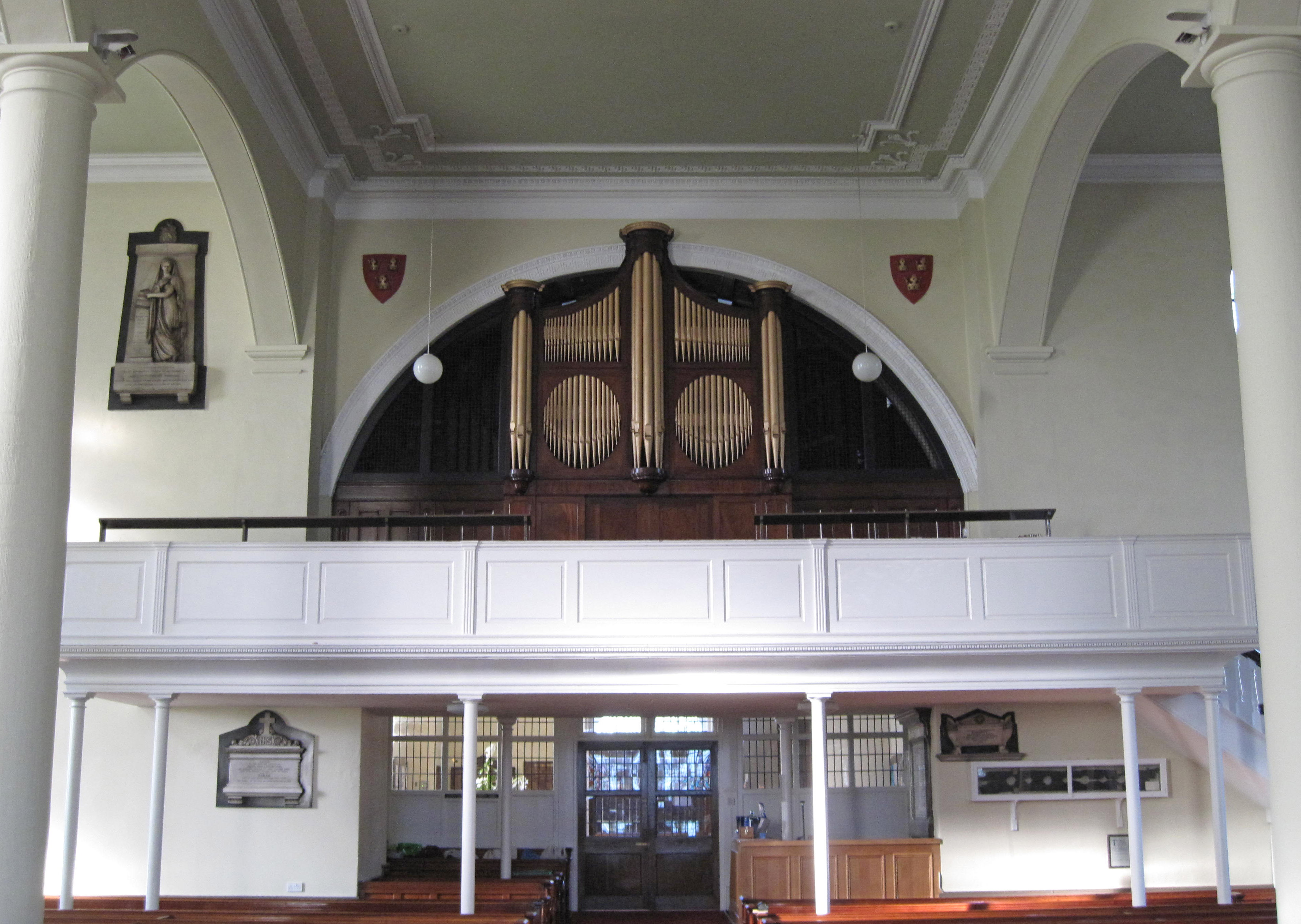 Christ Church, North Shields, Tyne and Wear, UK. Organ in West Gallery. Panelling either side from HMS Calliope 1884